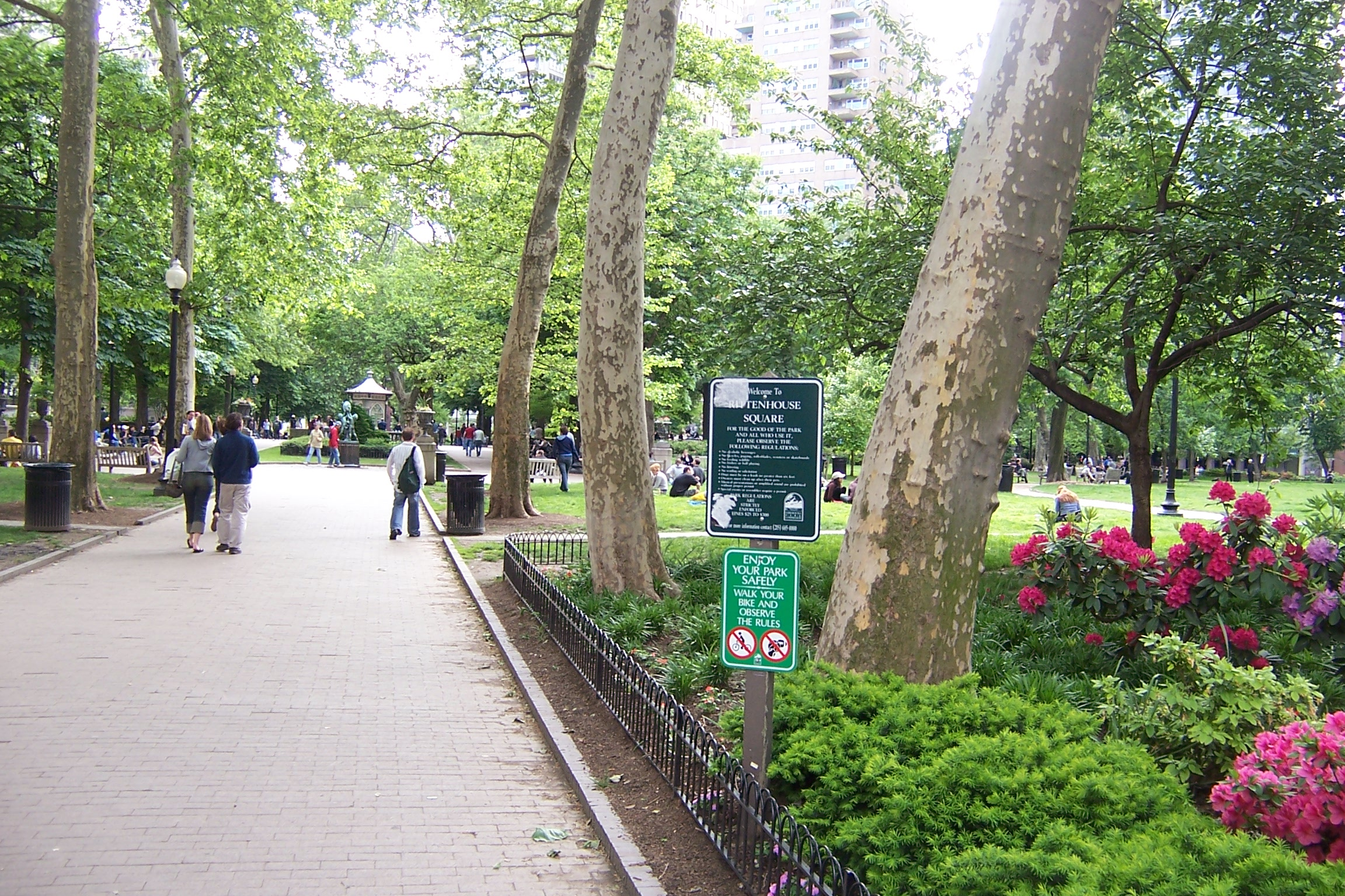 Rittenhouse Square, Philadelphia, near northeast corner.